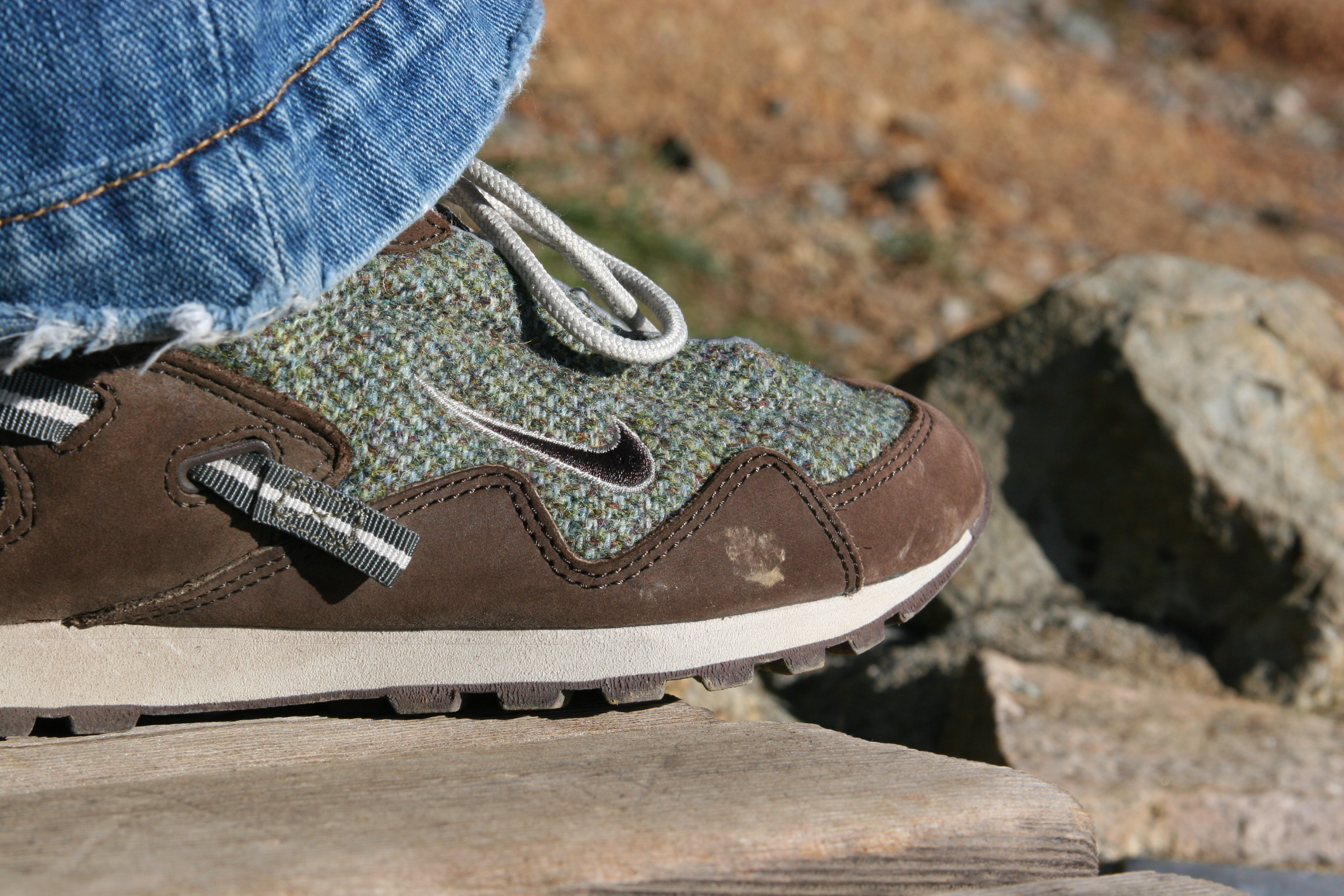 A person wearing a Nike shoe made with Harris Tweed.